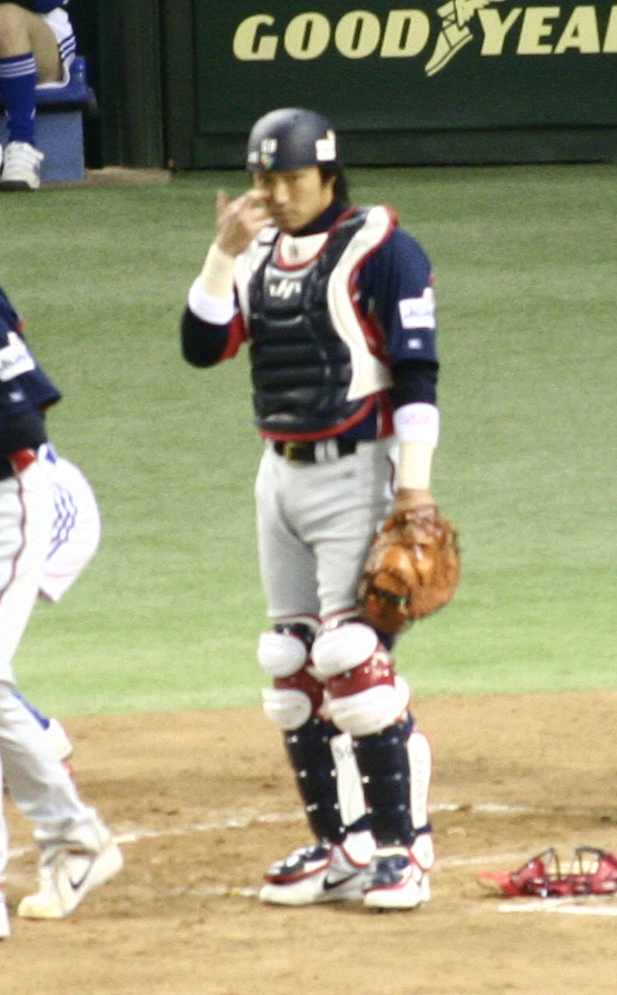 Ryoji Aikawa, catcher of the Japan national baseball team, at Tokyo Dome.